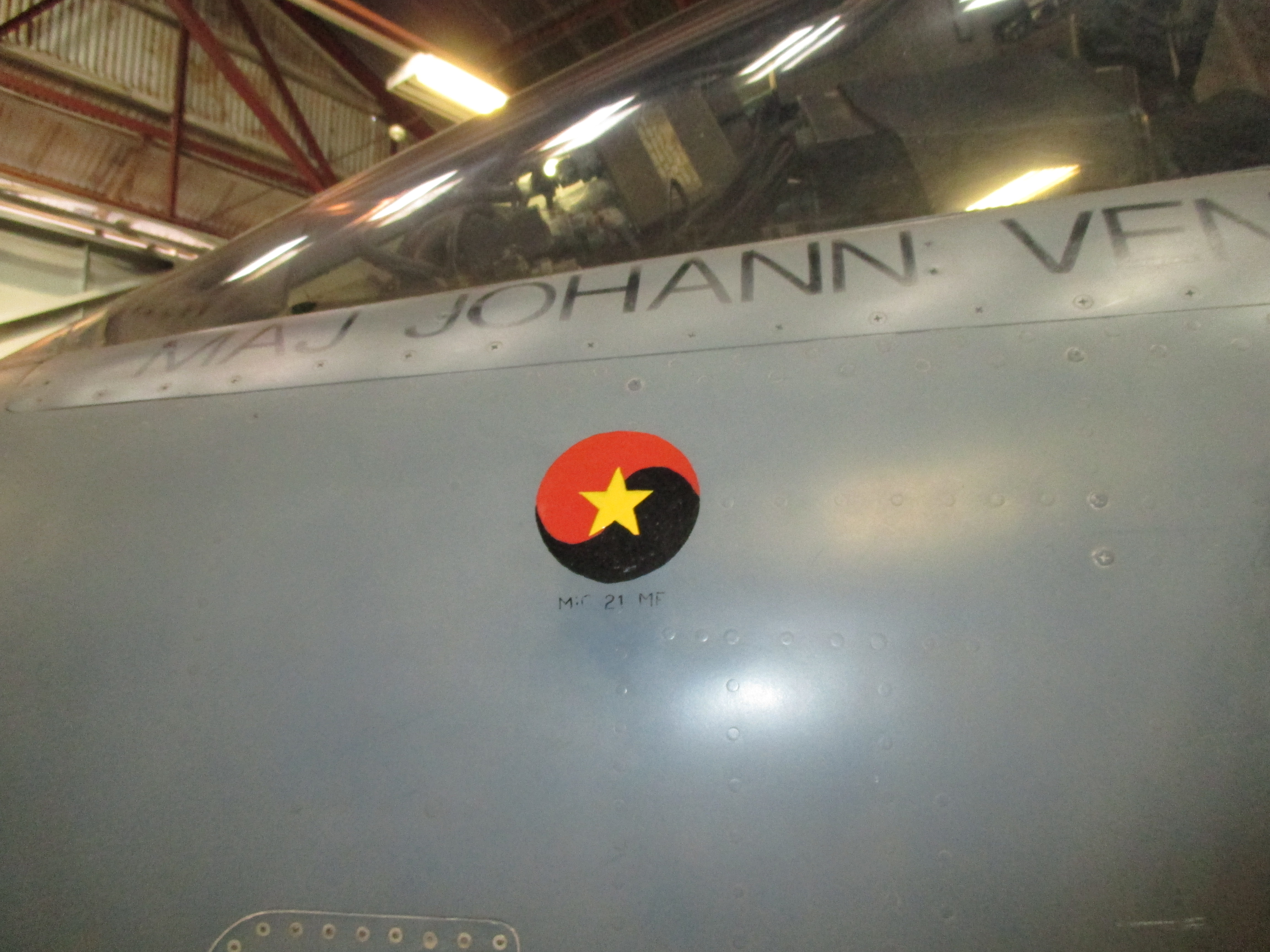 Description: Angolan MiG-21MF kill marking on the left side of the fuselage of a South African Air Force (SAAF) Mirage F1CZ.